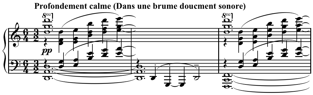 Parallel fourths evoking organum in Claude Debussy's (1862–1918) "The Sunken Cathedral".